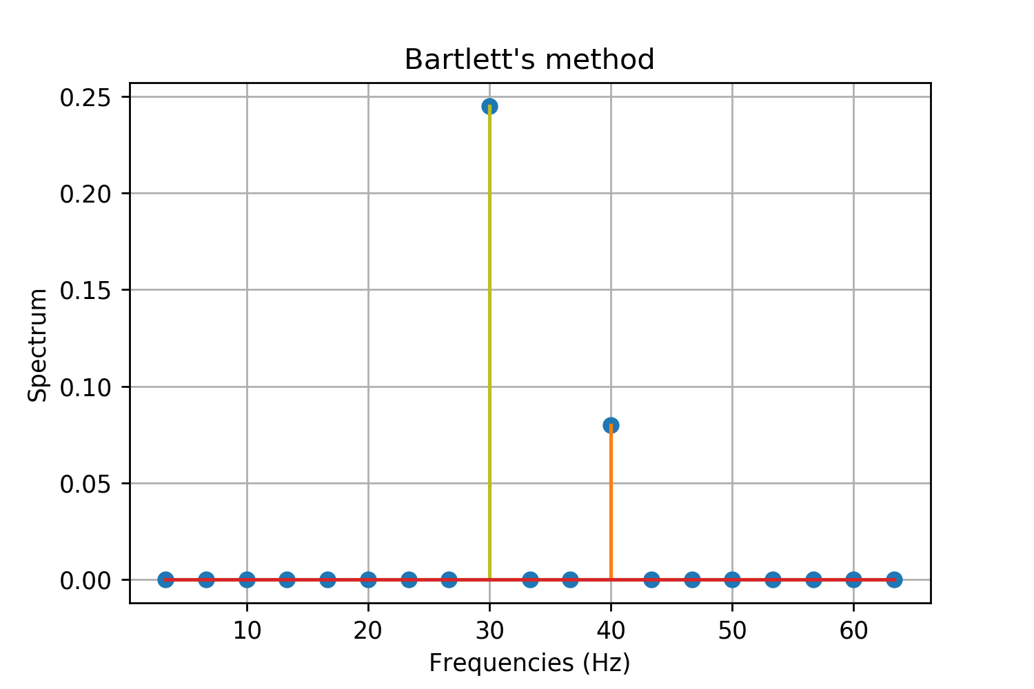 Developed according to [1].